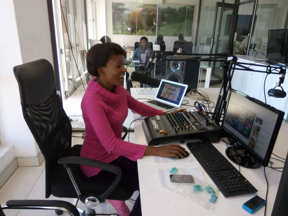 Presenter at ICE100